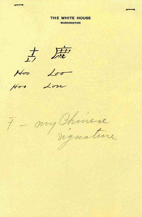 Signature of Lou Henry Hoover in Chinese.